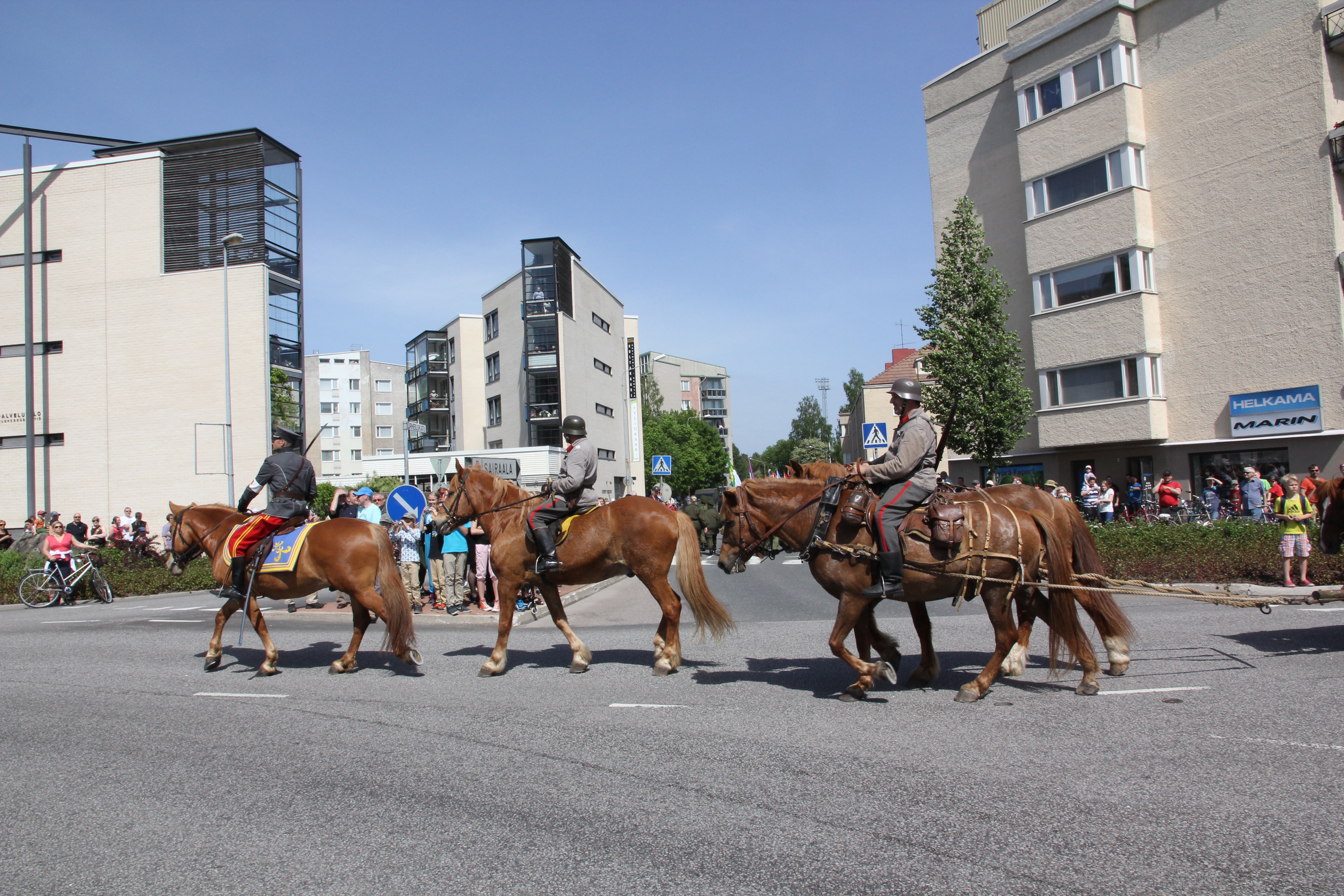 Dragoon and artillery heritage guilds during the Finnish military Flag Day 2014 parade along Valtakatu street in Lappeenranta.